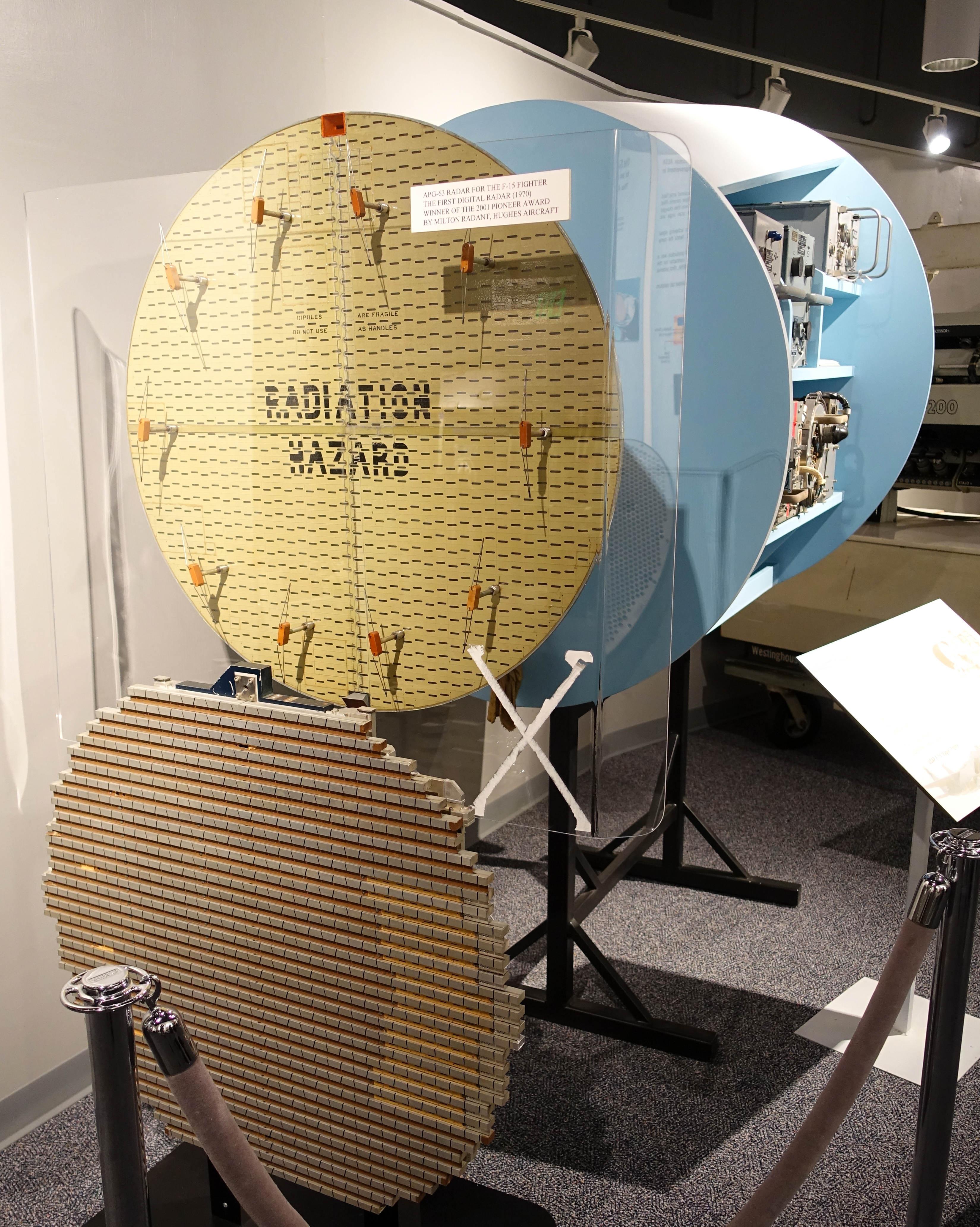 Exhibit in the National Electronics Museum, 1745 West Nursery Road, Linthicum, Maryland, USA. All items in this museum are unclassified. The museum permitted photography without restriction.